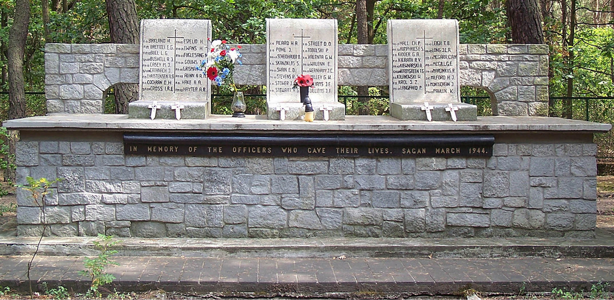 Memorial to "The Fifty" down the road toward Żagań. Memorial to "The Fifty" Allied airmen executed after the "Great Escape".